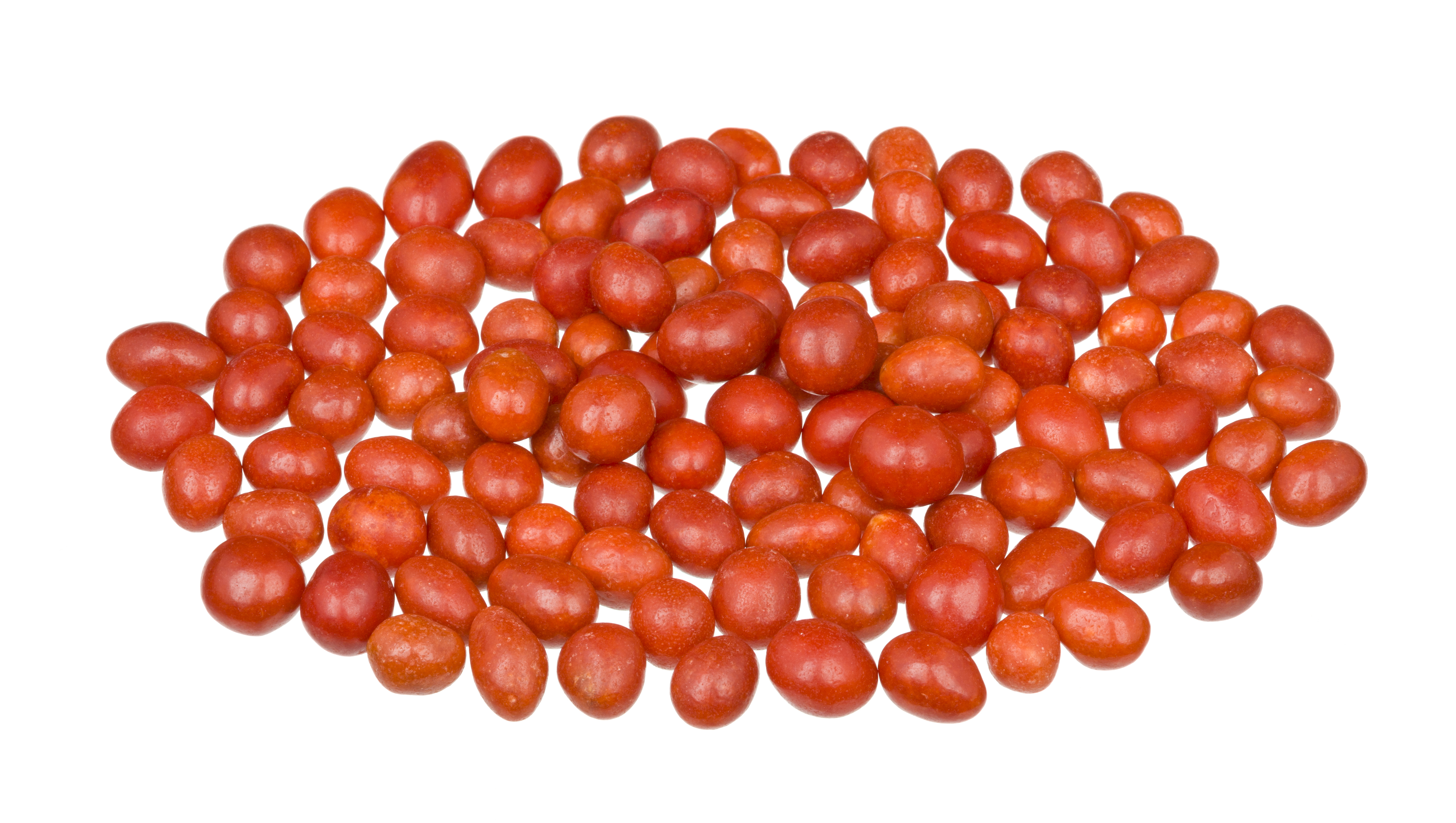 A pile of Boston Baked Beans, an American candy made by Ferrara Pan that consists of peanuts covered in a candy coating.